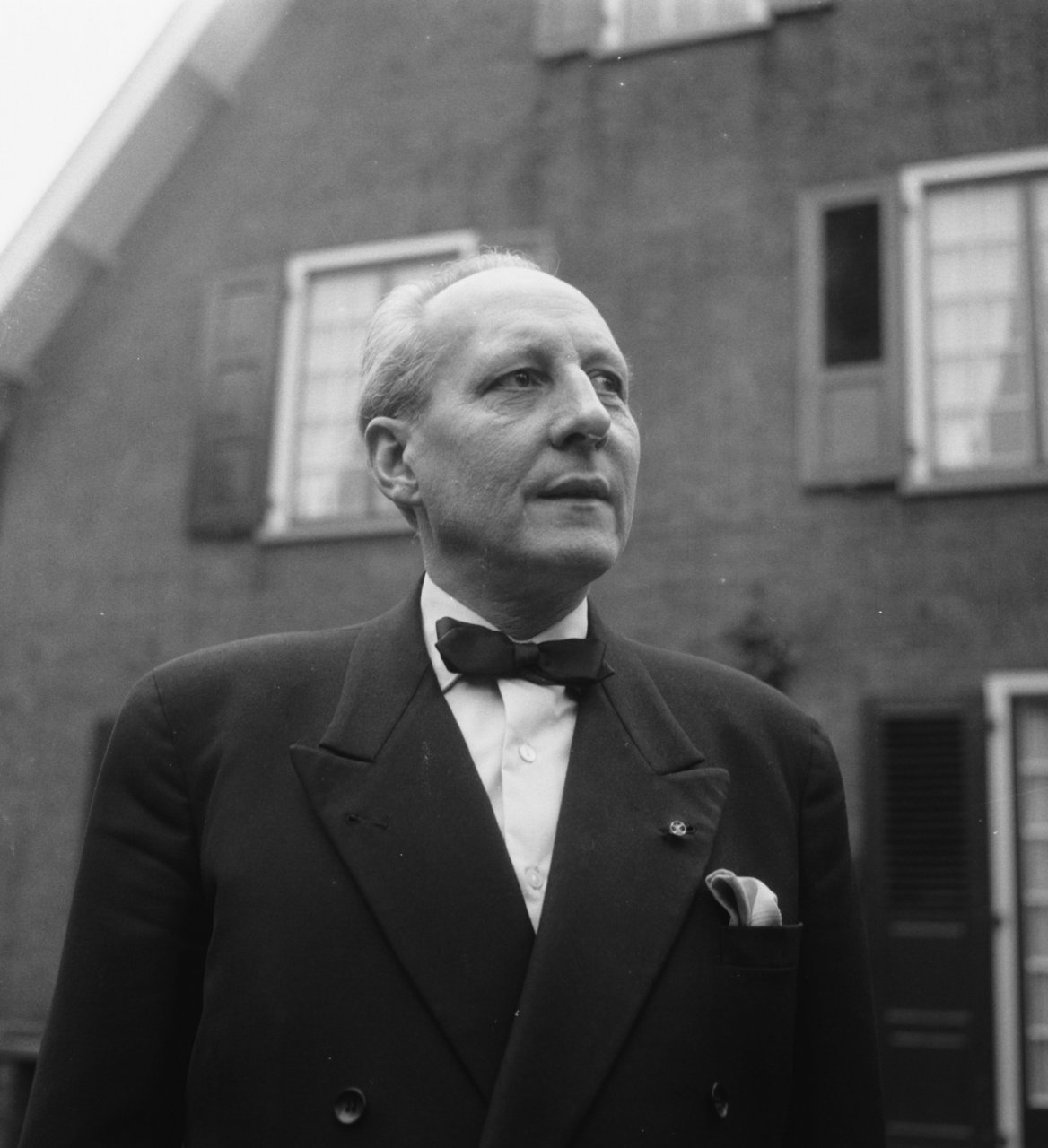 Anthon van der Horst on 26 December 1956